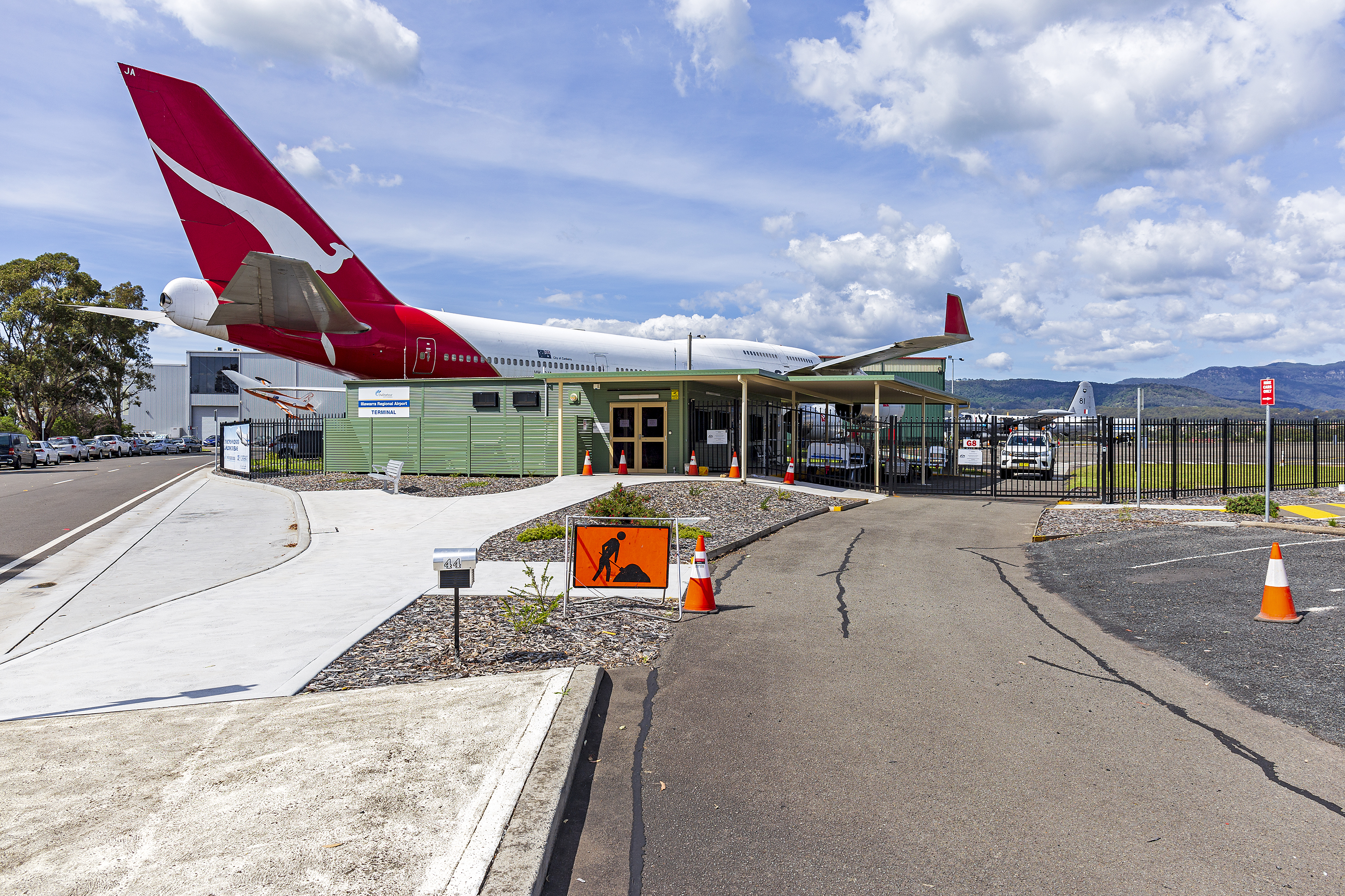 Illawarra Regional Airport terminal